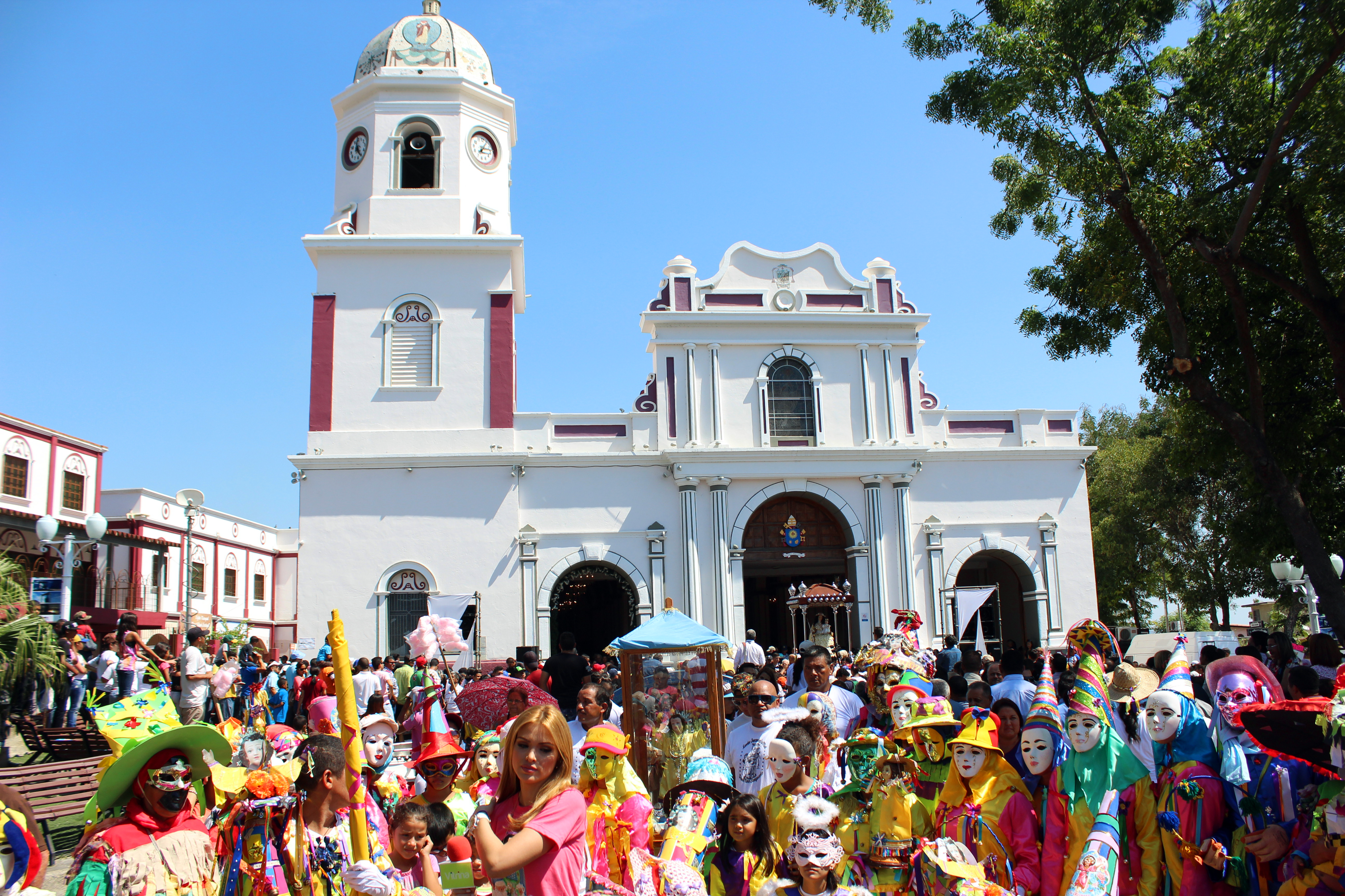 Zaragozas frente a la Divina Pastora en la entrada de la iglesia.